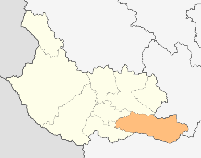 Map of Rila municipality, Kyustendil Province